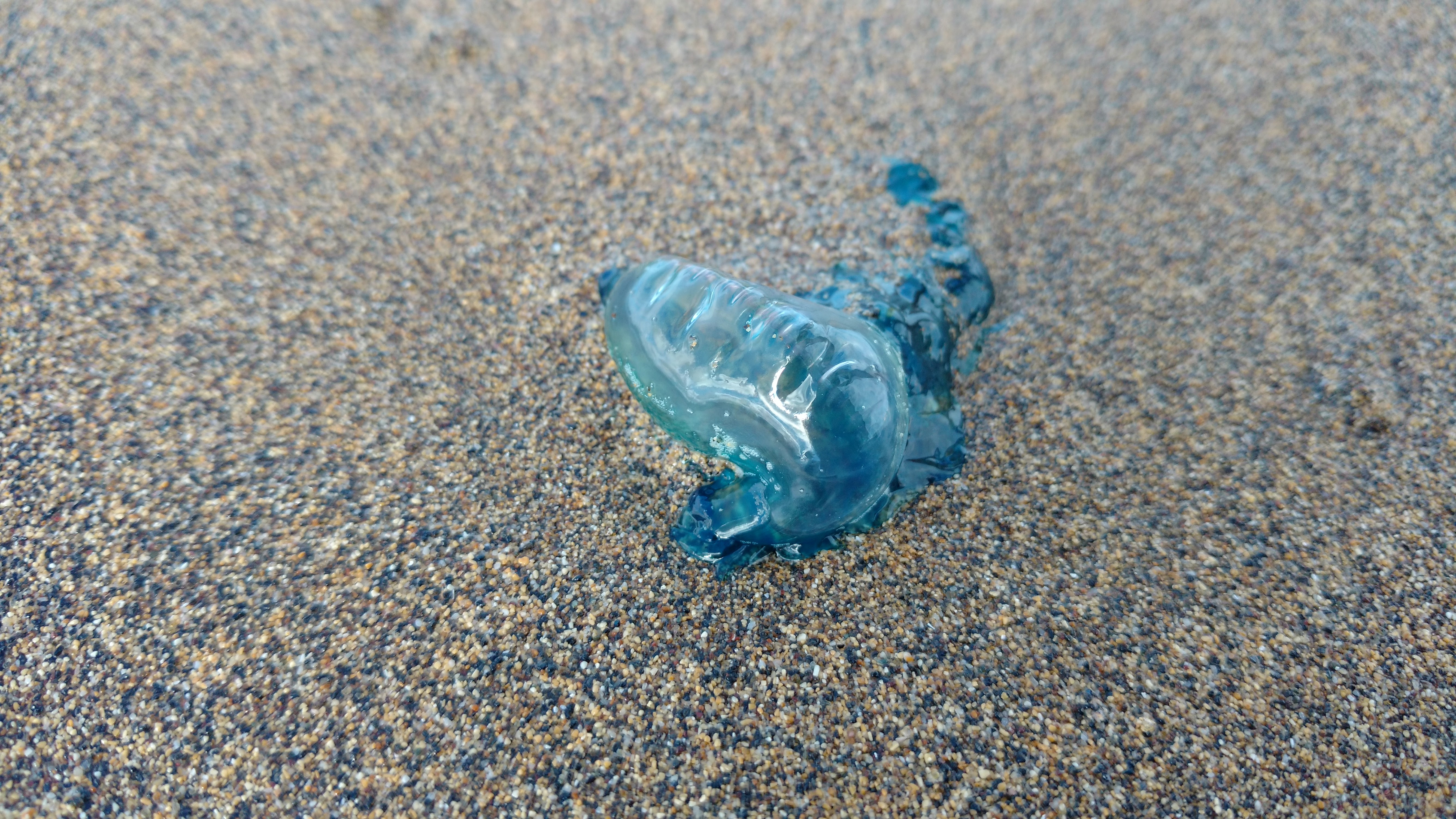 Physalia physalis in Las Cícer, Las Canteras (Gran Canaria)